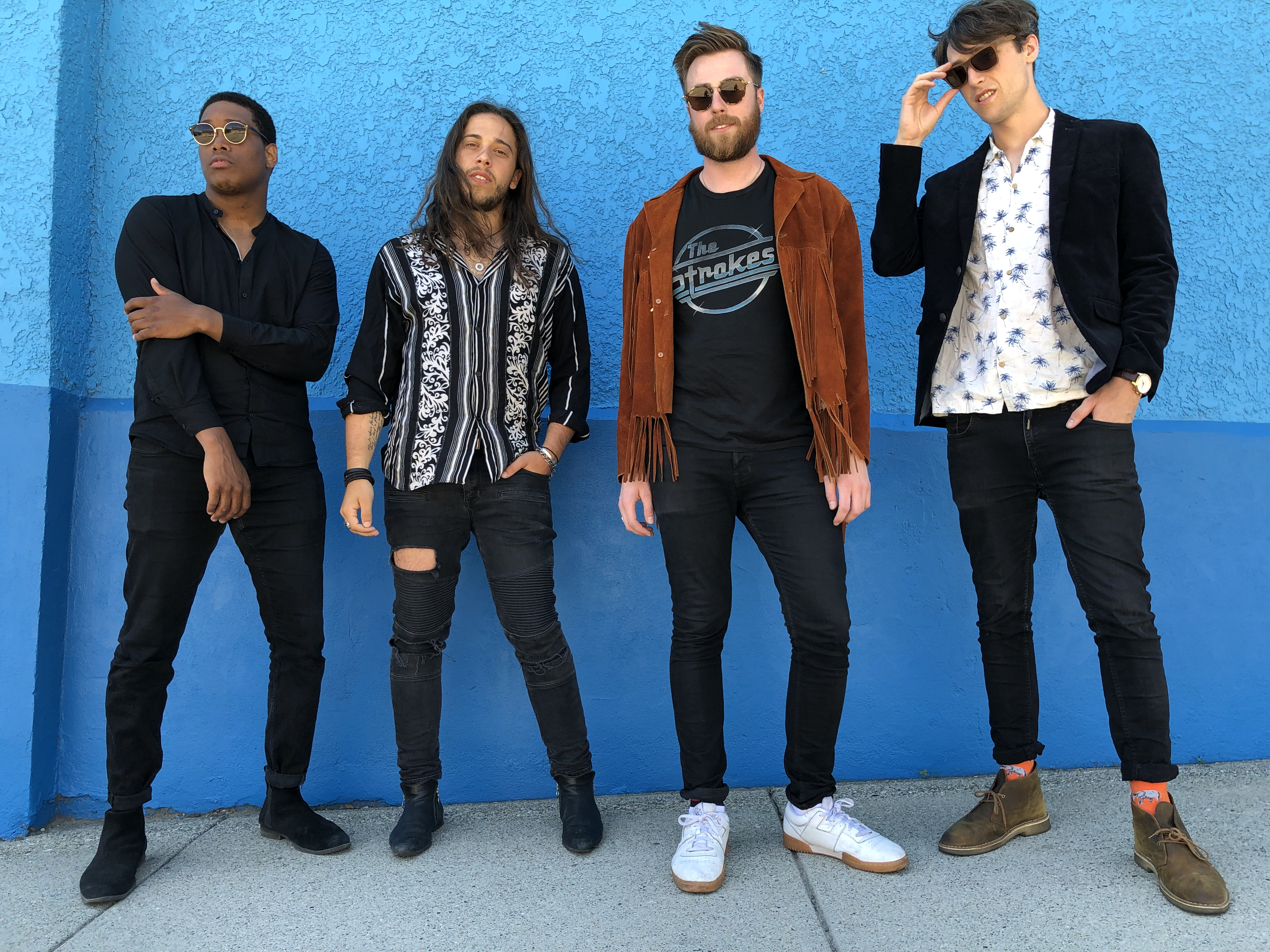 Members of the band Kasador posing for a photo in Oliver, BC